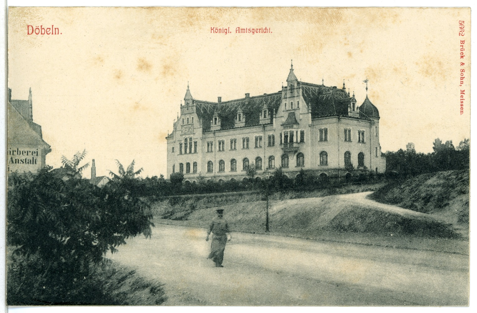 This postcard is from publisher Brück & Sohn in Meißen ( This postcard has a unique number 05662 and is available in a higher resolution at the publisher. This images was uploaded in a cooperation project between Wikipedians and the publisher.